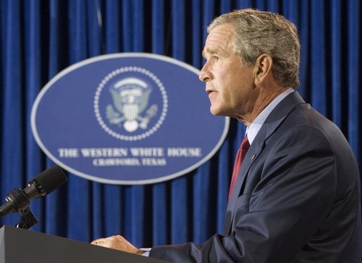 President George W. Bush gives remarks on Hurricane Katrina and the Iraqi constitution from his Crawford, Texas ranch on Sunday August 28, 2005. The logo in the background was created by the Bush Administration in August 2001, and is displayed at press briefings during Bush's stays at his ranch in Crawford. The sign reads, "The Western White House / Crawford, Texas"